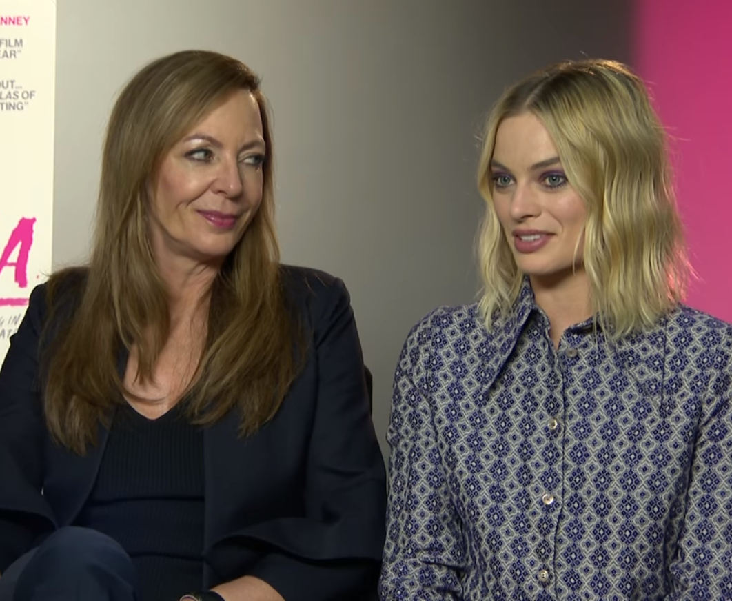 To celebrate International Womens Day 2018, MTV sat down with Jennifer Lawrence, Margot Robbie, Allison Janney, Charlize Theron and Alicia Vikander to get the insider take on how Hollywood is changing for women. Watch some of Hollywood’s biggest stars explain the changes they are seeing all around them, and what still needs to be done when it comes to female equality in the industry. #timesup